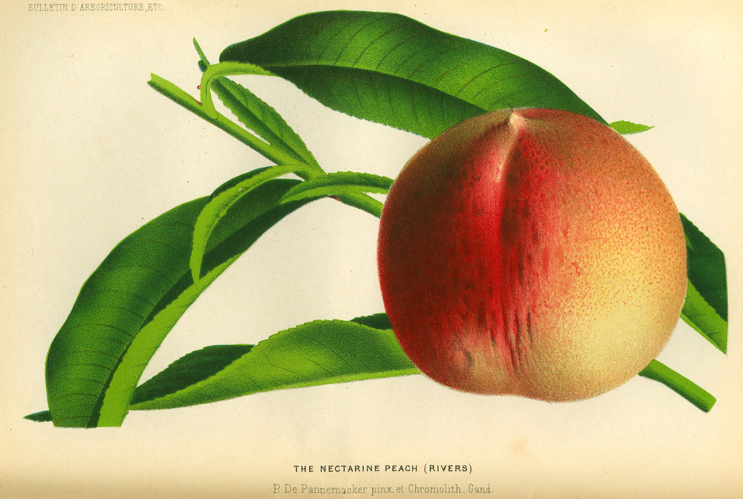 botanical illustration